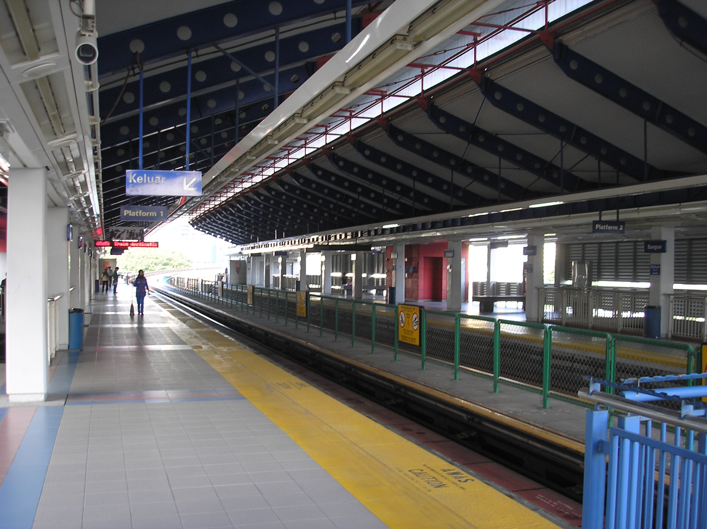 The platform level of the Bangsar LRT station (Kelana Jaya Line), Kuala Lumpur, Malaysia.